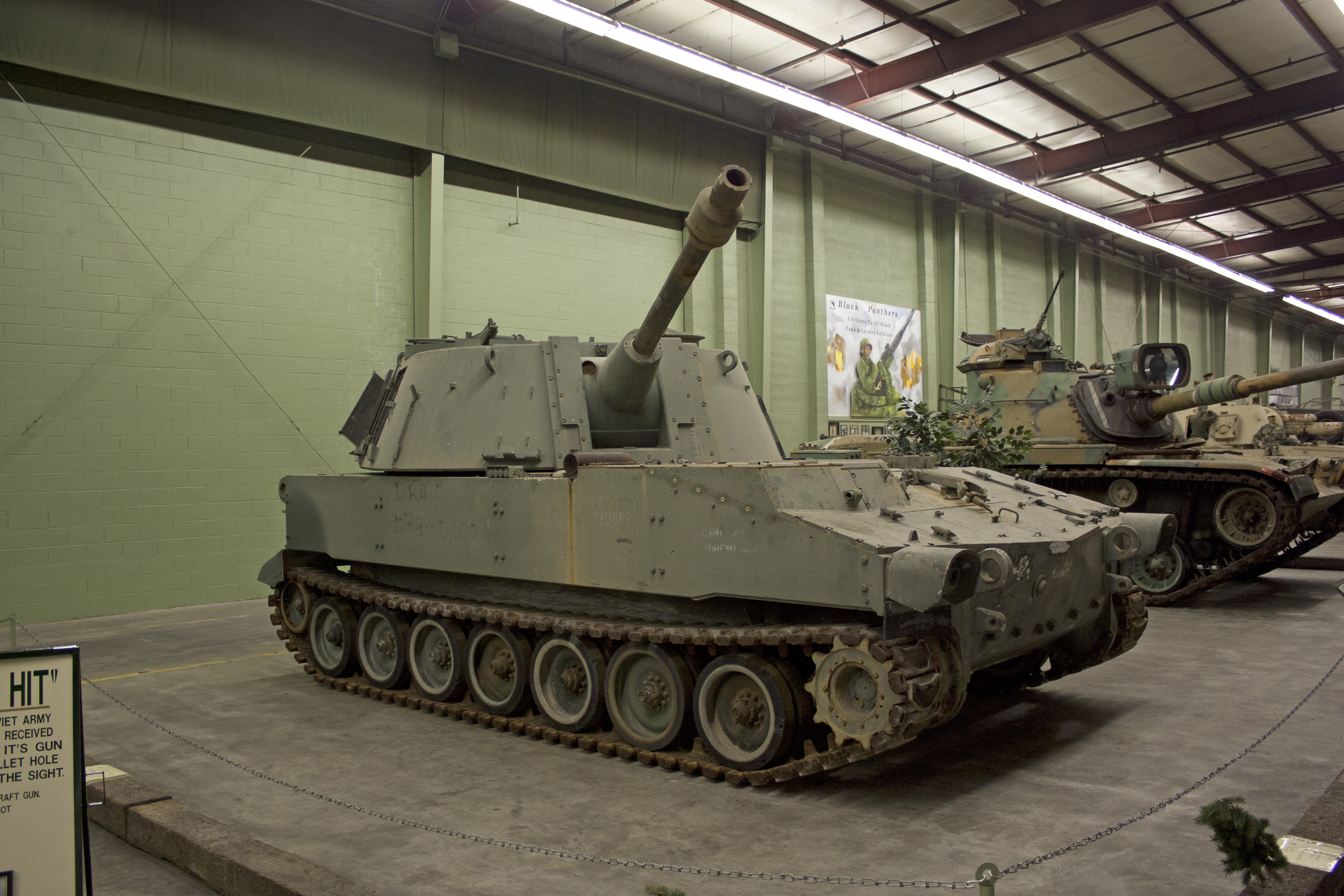 M108 howitzer at the American Armoured Foundation Museum